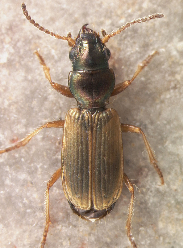 Cillenus lateralis, location: Spain: Boiro